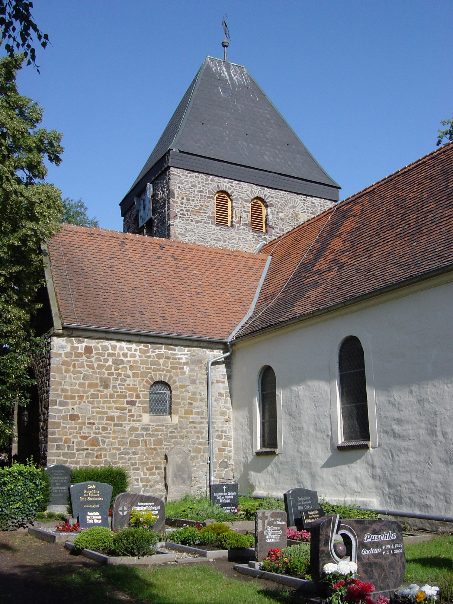 Protestant St. Benedikt church in Hohenwarsleben, Germany